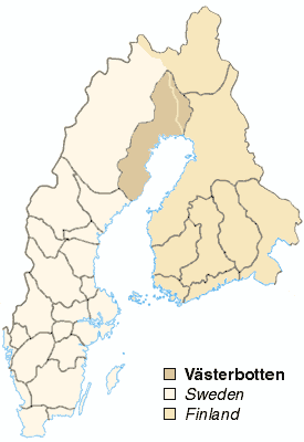 Map Swedish Provinces, Västerbotten © Mic, 2003 Released under the GNU Free Documentation License See also: Provinces of Sweden